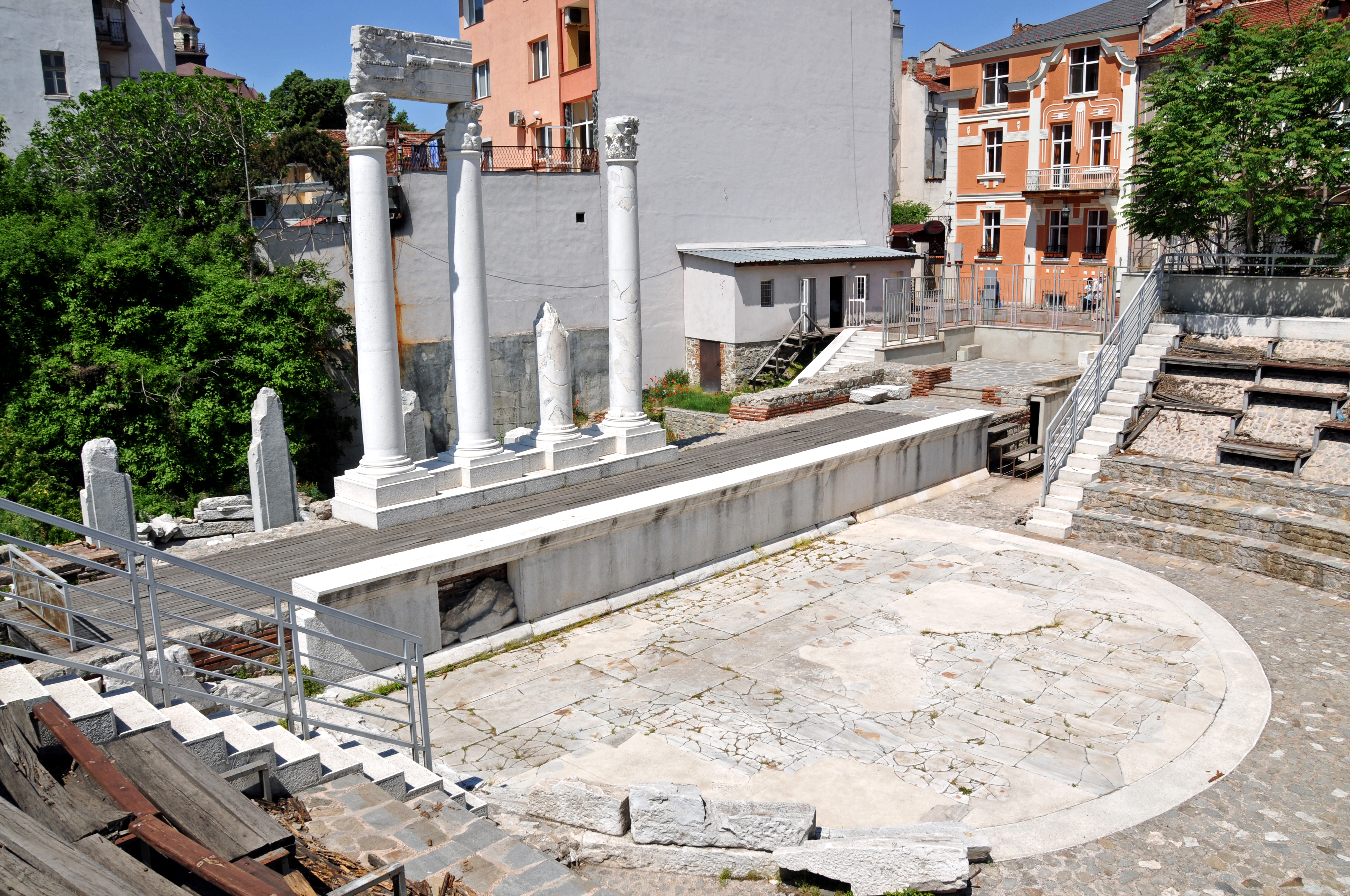 PLEASE, NO invitations or self promotions, THEY WILL BE DELETED. My photos are FREE to use, just give me credit and it would be nice if you let me know, thanks. Time to leave Plovdiv and head for the city of Veliko Tarnovo. I found this while walking around, some of the seats were wooden and falling apart. Apparently it was used for entertainment at one time but has fallen into disrepair. This Roman Odeon was built in the 2nd - 5th centuries AD and is the second (and smaller) antique theatre of Philipopolis with 350 seats. It was initially built as a bulevterion (edifice of the city council) and was later reconstructed as a theatre. The Odeon was attached to the forum complex. The forum was built in the end of the 1st century AD, when Philipopolis obtained a new city planning scheme and a center (forum) according to a Roman model. It covers an area of 11 hectares and used to be covered with shops of the similar sizes on three of its sides and public buildings on the north side.